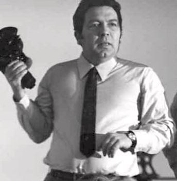 Press photo for United Artists' A Quiet Place in the Country featuring director Elio Petri